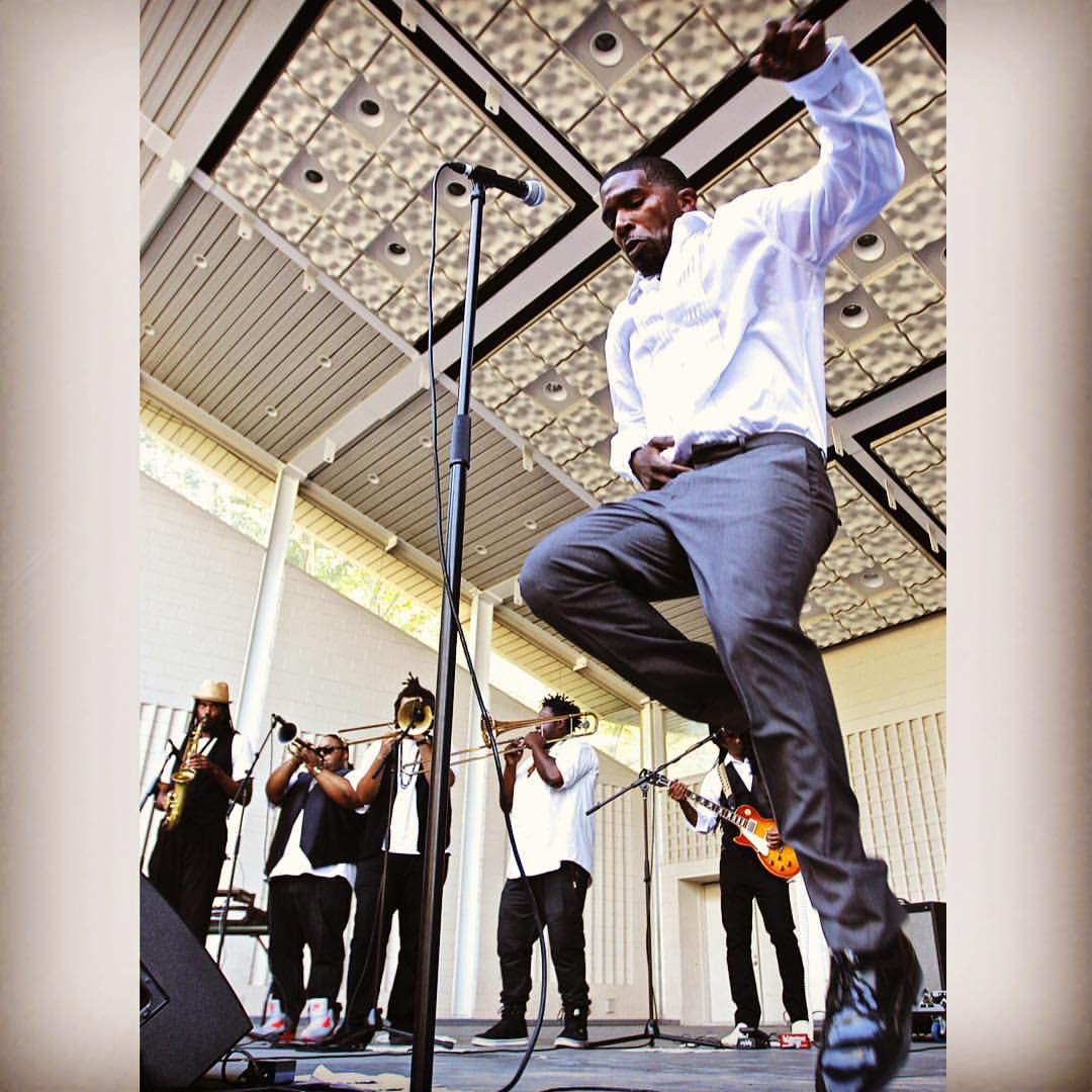 Chris Rob Dennis Manuel Harlem, NY August 2015